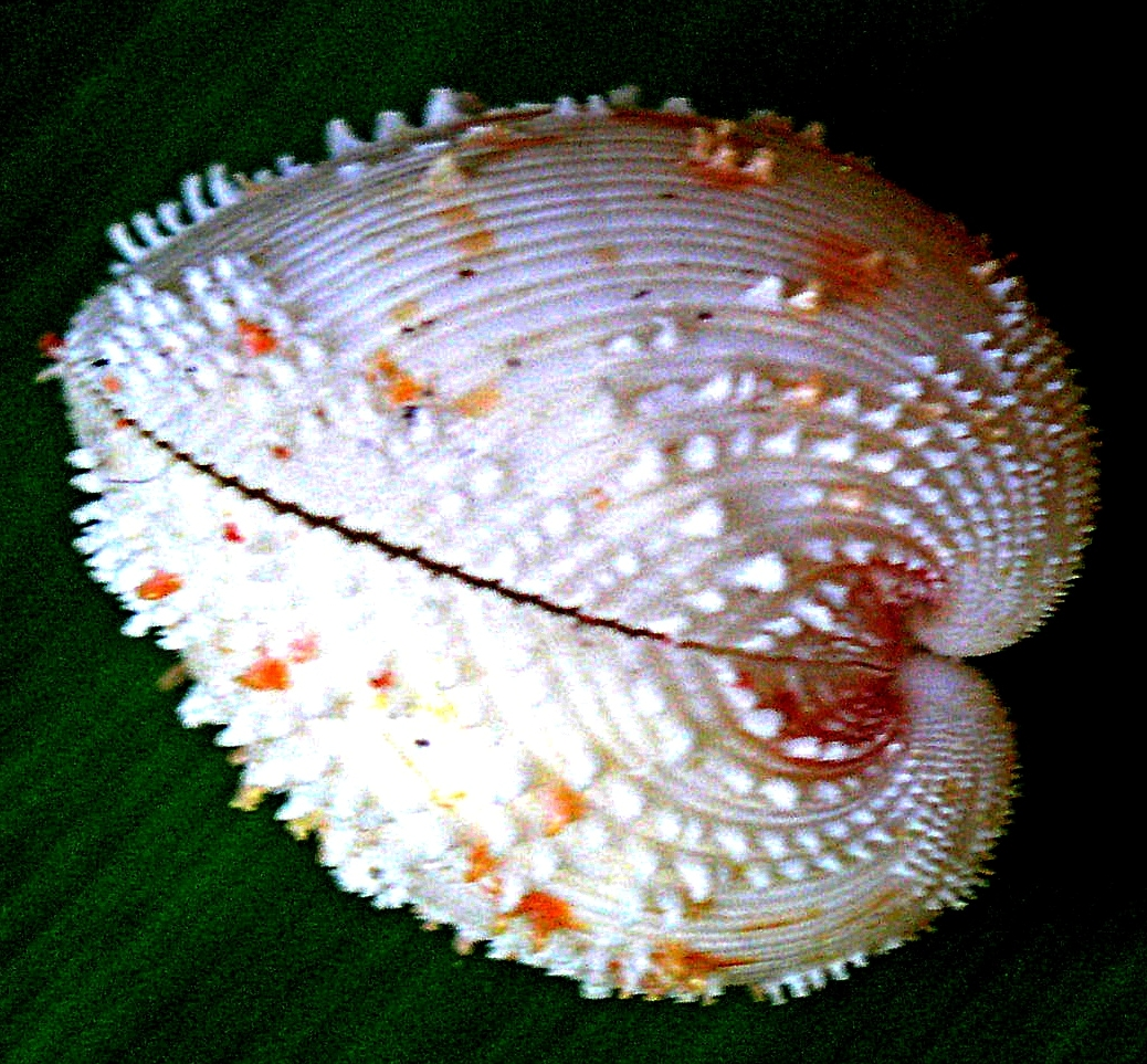 Photo of the bivalve shell of Fragum unedo.